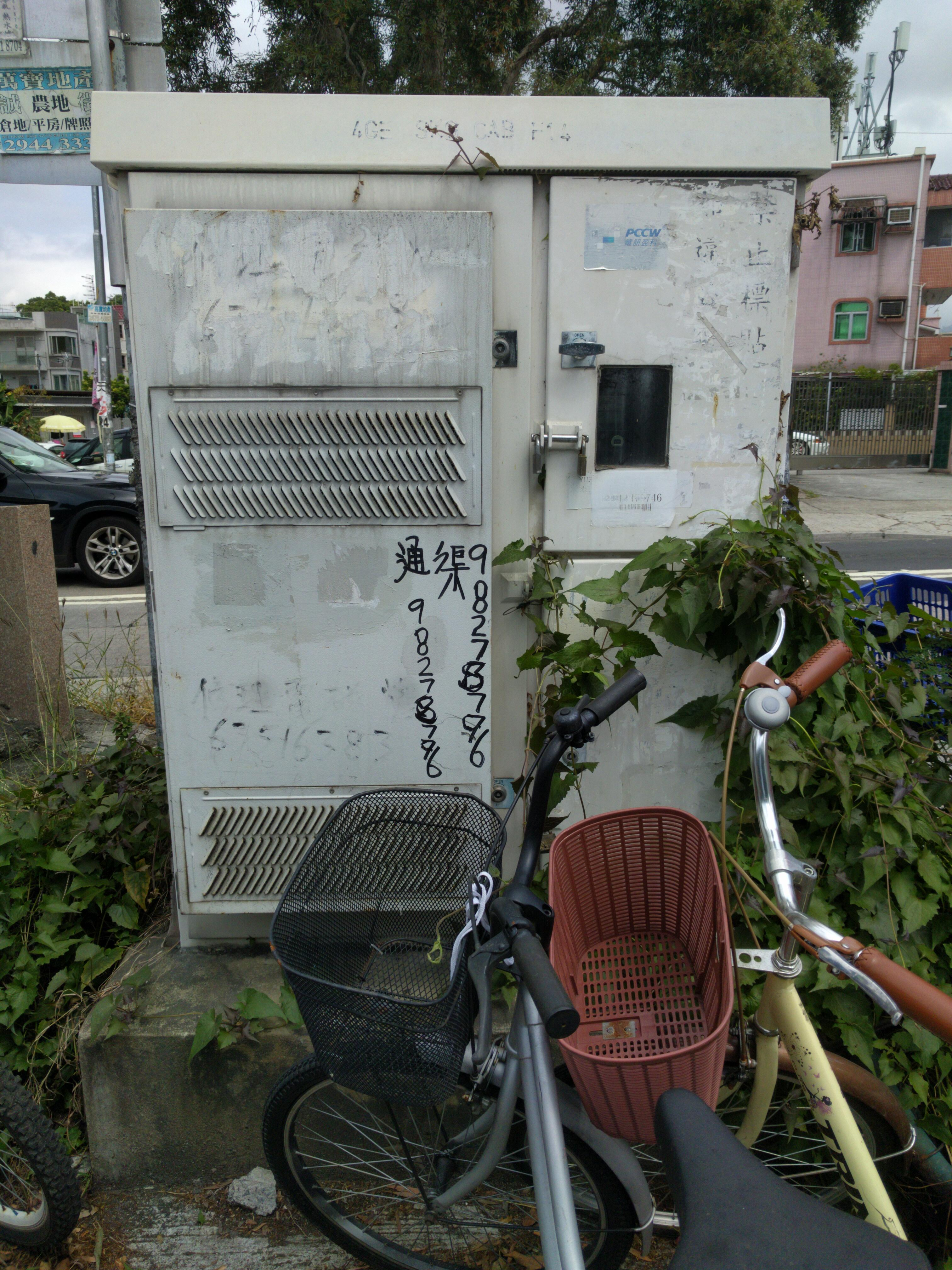 A DSLAM Cabinet installed by PCCW in Pat Heung, Hong Kong. Which is mainly used for VDSL2 Network with Profile 17a (DL: 100Mbps; UL: 50Mbps)